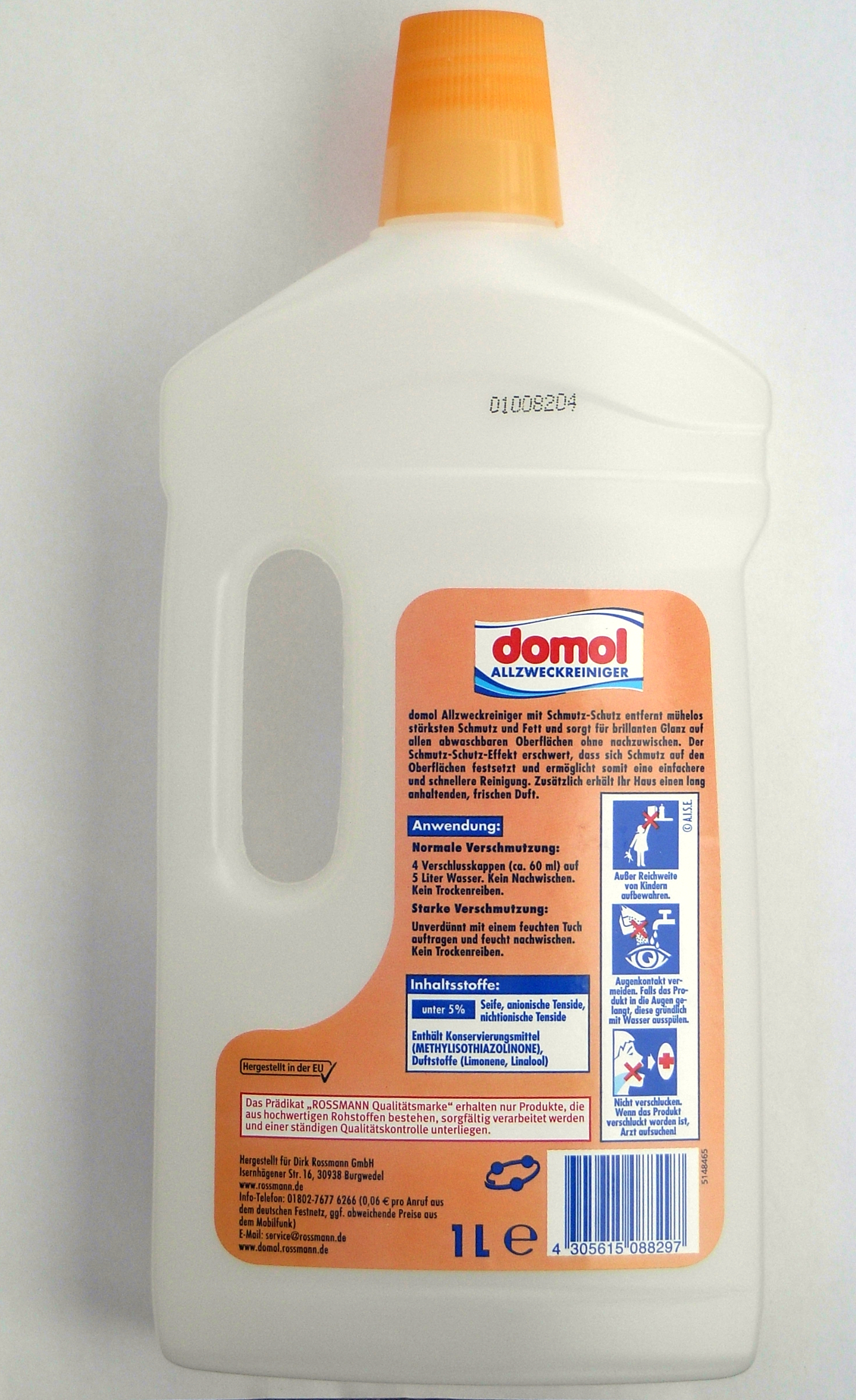 plastic packing of a cleaning solvent